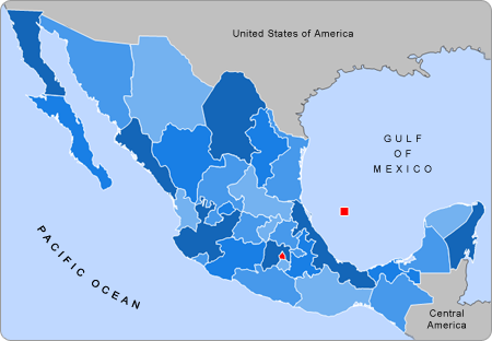 Small map of Mexico in use in the clickable map in various Wikipedias